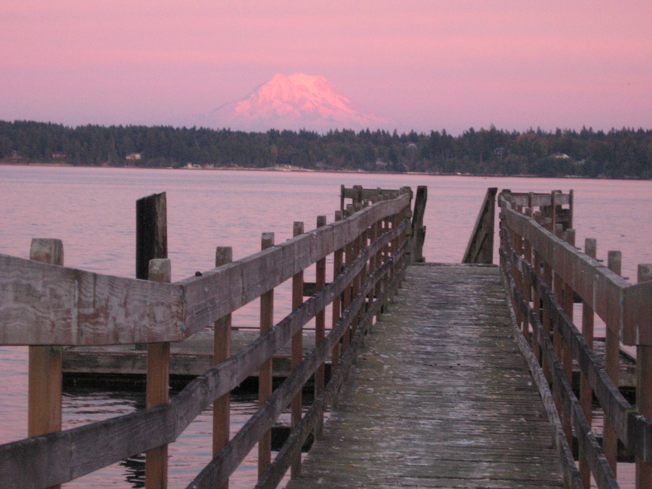 Mount Rainier looms over the still waters of Totten Inlet, Mason County, Washington.